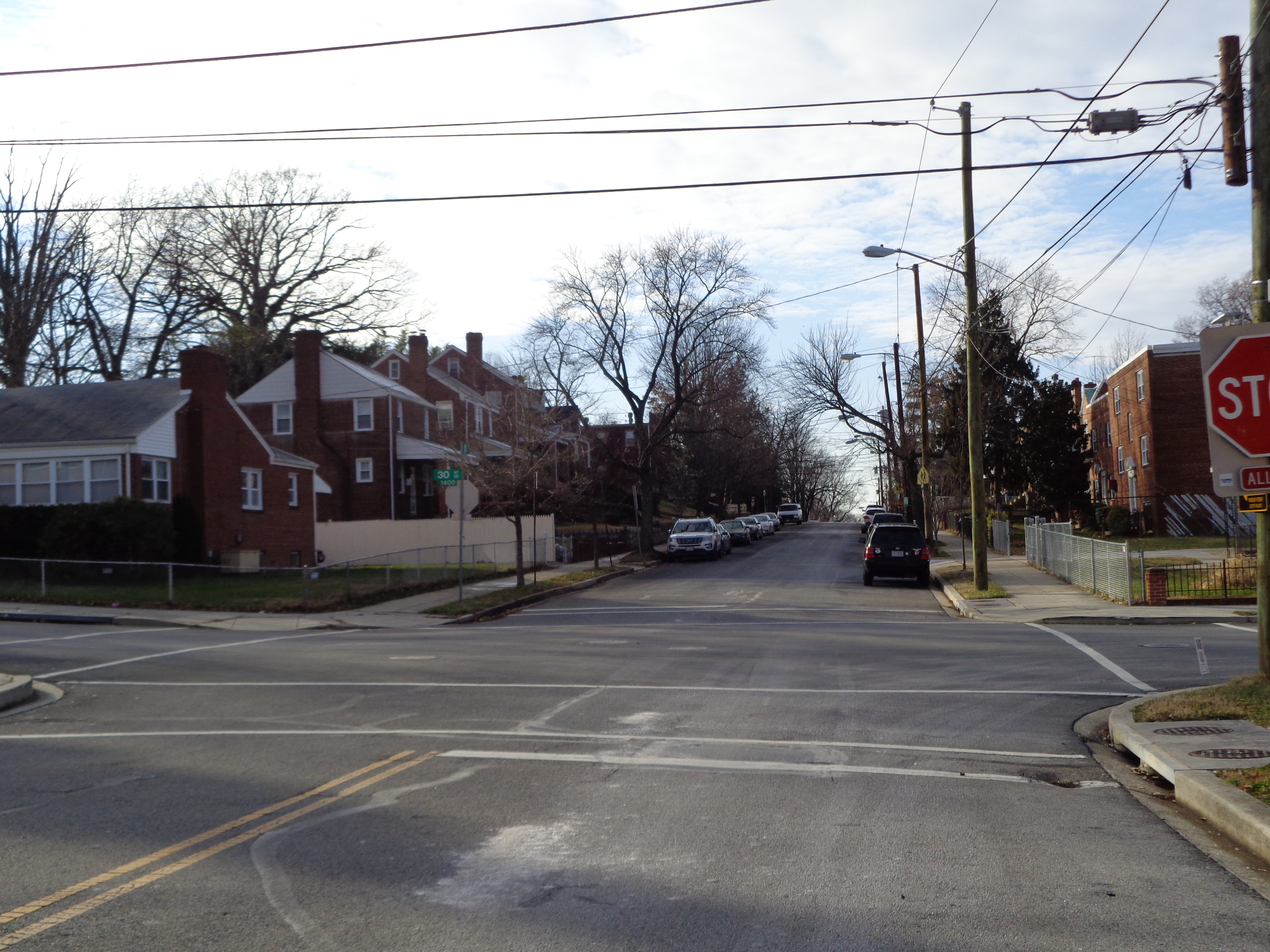 Picture of the intersection of 30th and O St., SE, in Twining, neighborhood of Washington, DC